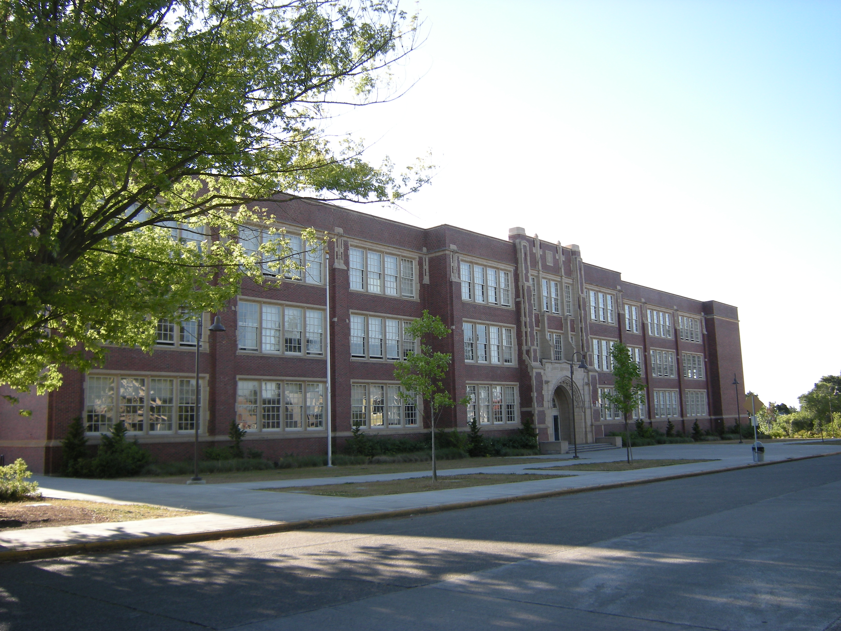 Madison Middle School, formerly Madison School, 3429 45th Avenue S.W. West Seattle, Seattle, Washington. The school is an official city landmark.